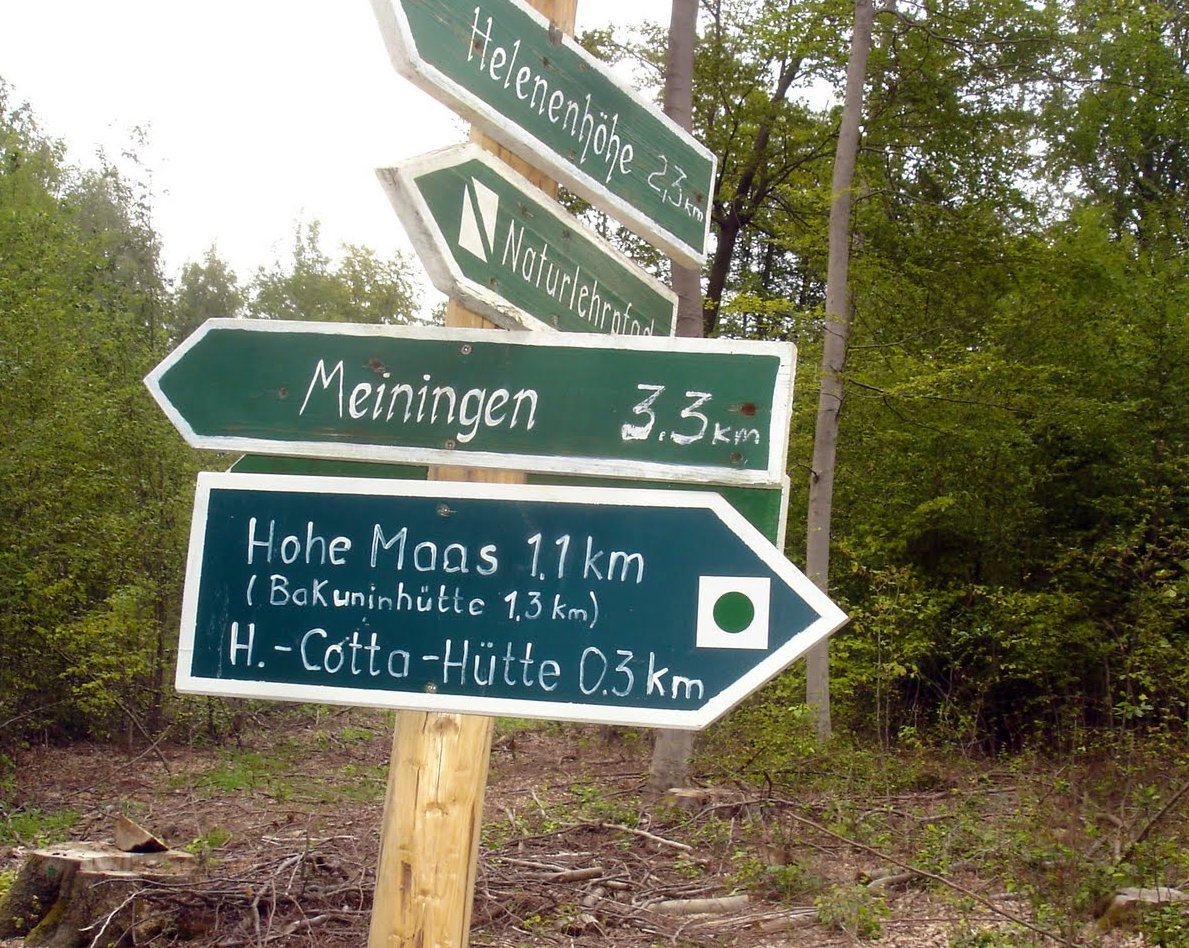 fingerpost to Bakuninhütte (Bakunin hut)